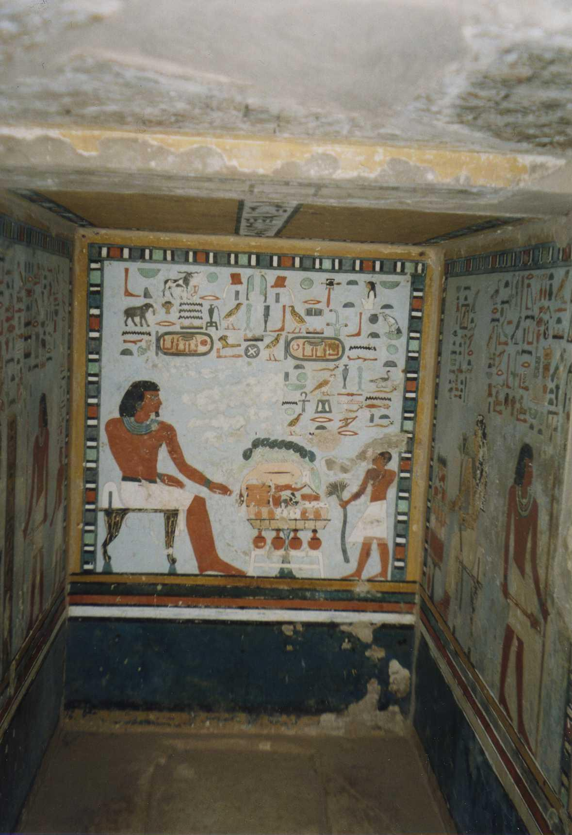 Niche at the rear wall of the tomb of Sarenput II.